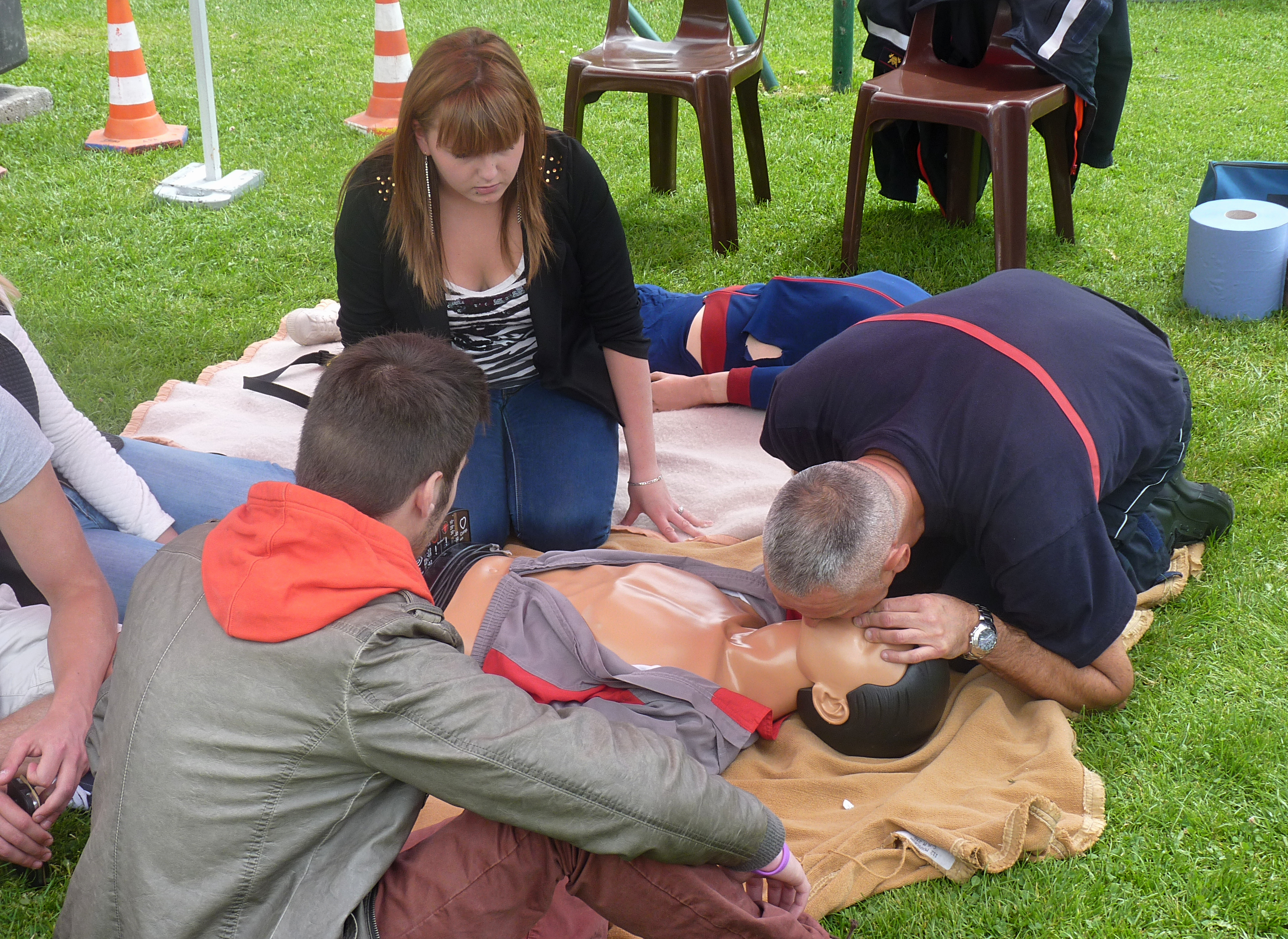 A fireman explaining to young people the technique of the mouth-to-mouth resuscitation on a model, picture taken in Belgium.